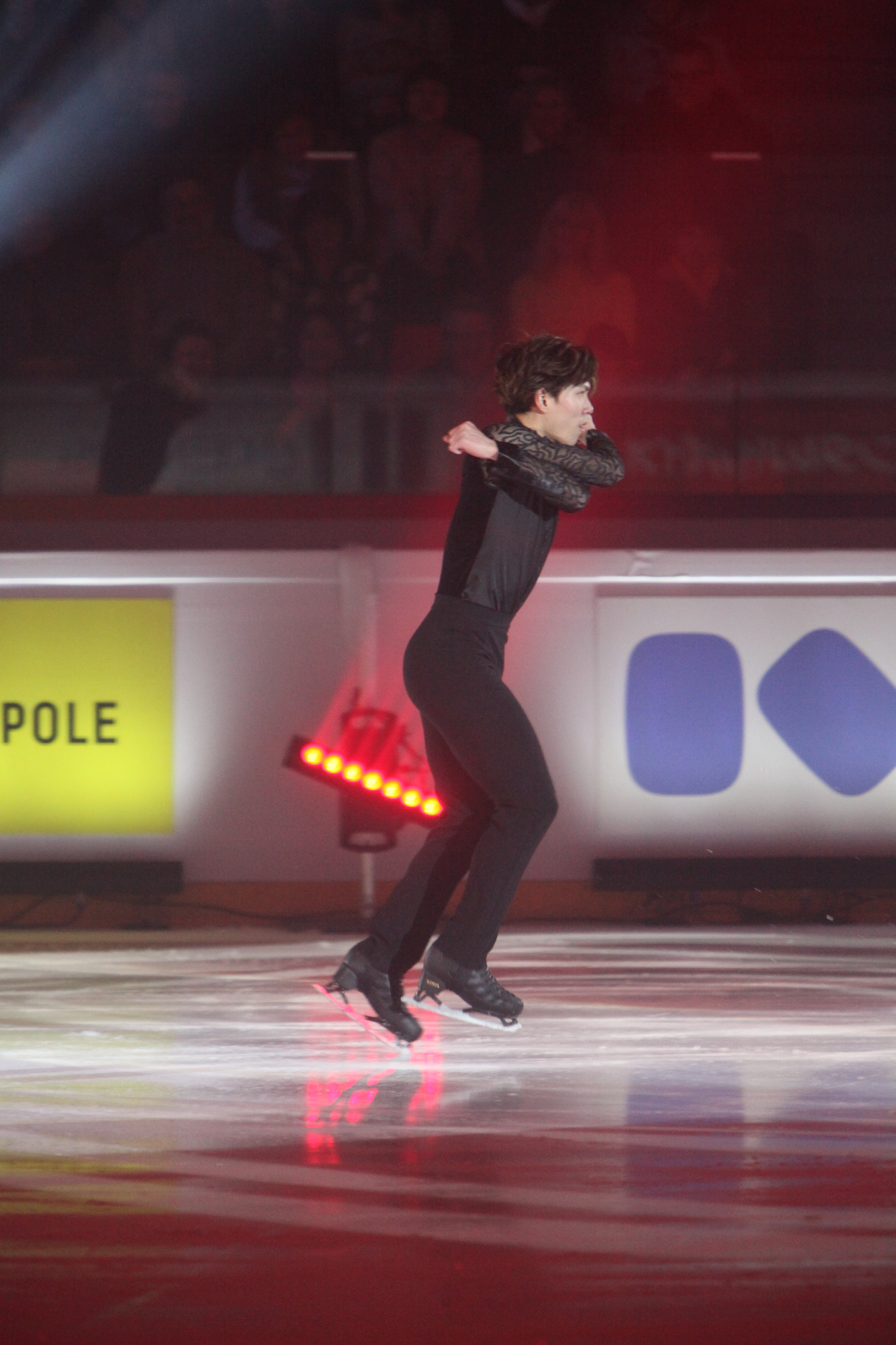 Keiji Tanaka during the gala at the Internationaux de France de Patinage 2018.